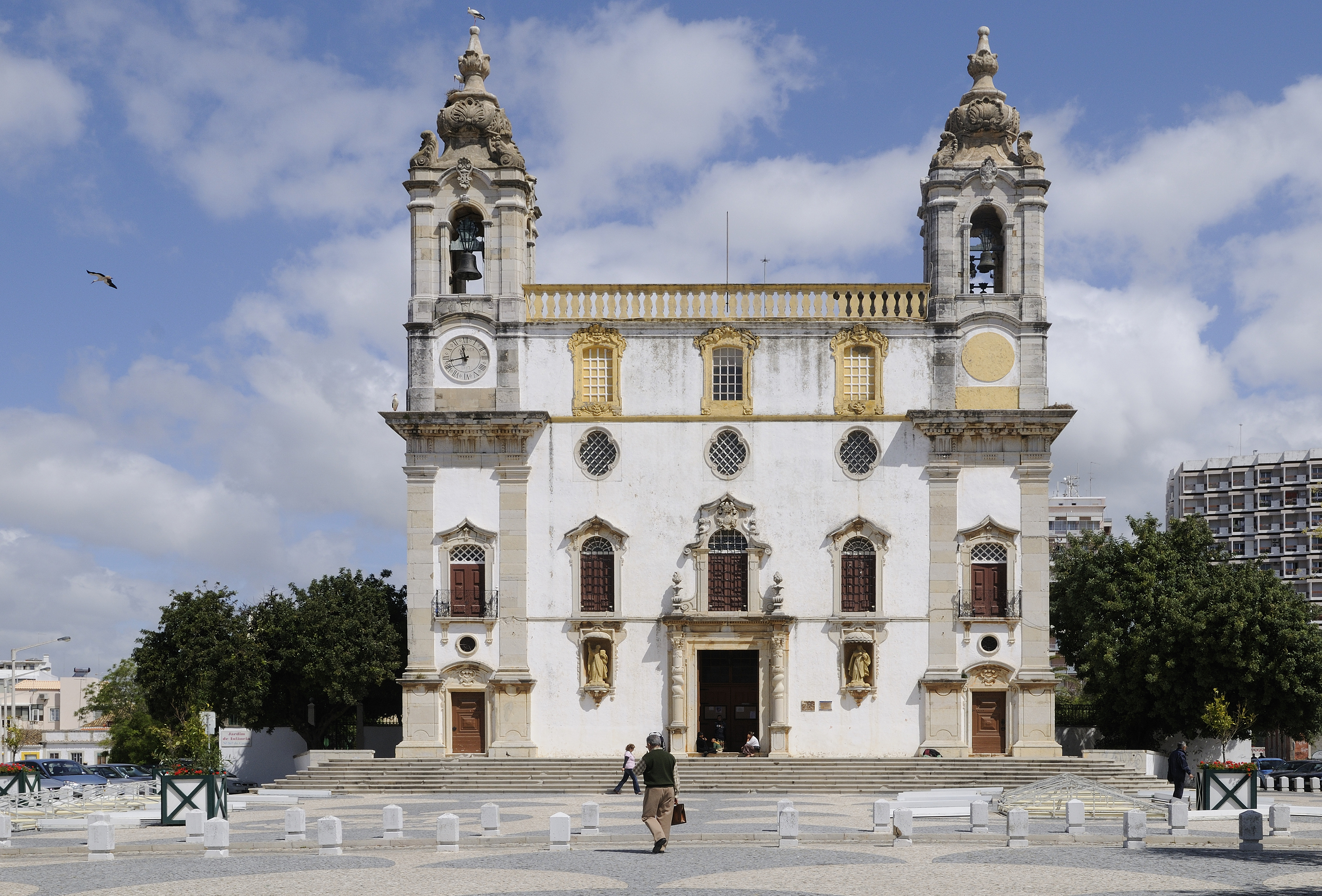 The Igreja do Carmo (Carmo Church) is a landmark structure in Faro, Portugal. The resolution of the original photograph is 6000*4367.